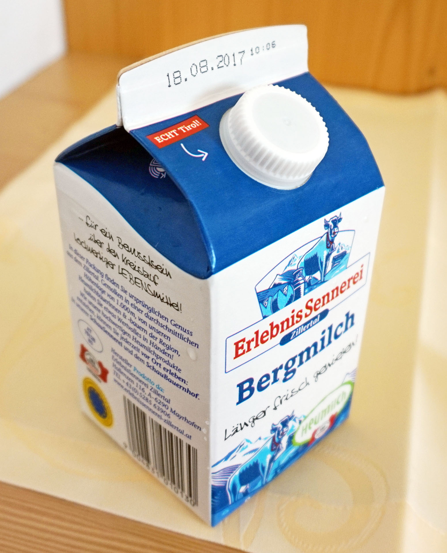 Milk container in Austria.This photograph was taken with a Sony ILCE-5000